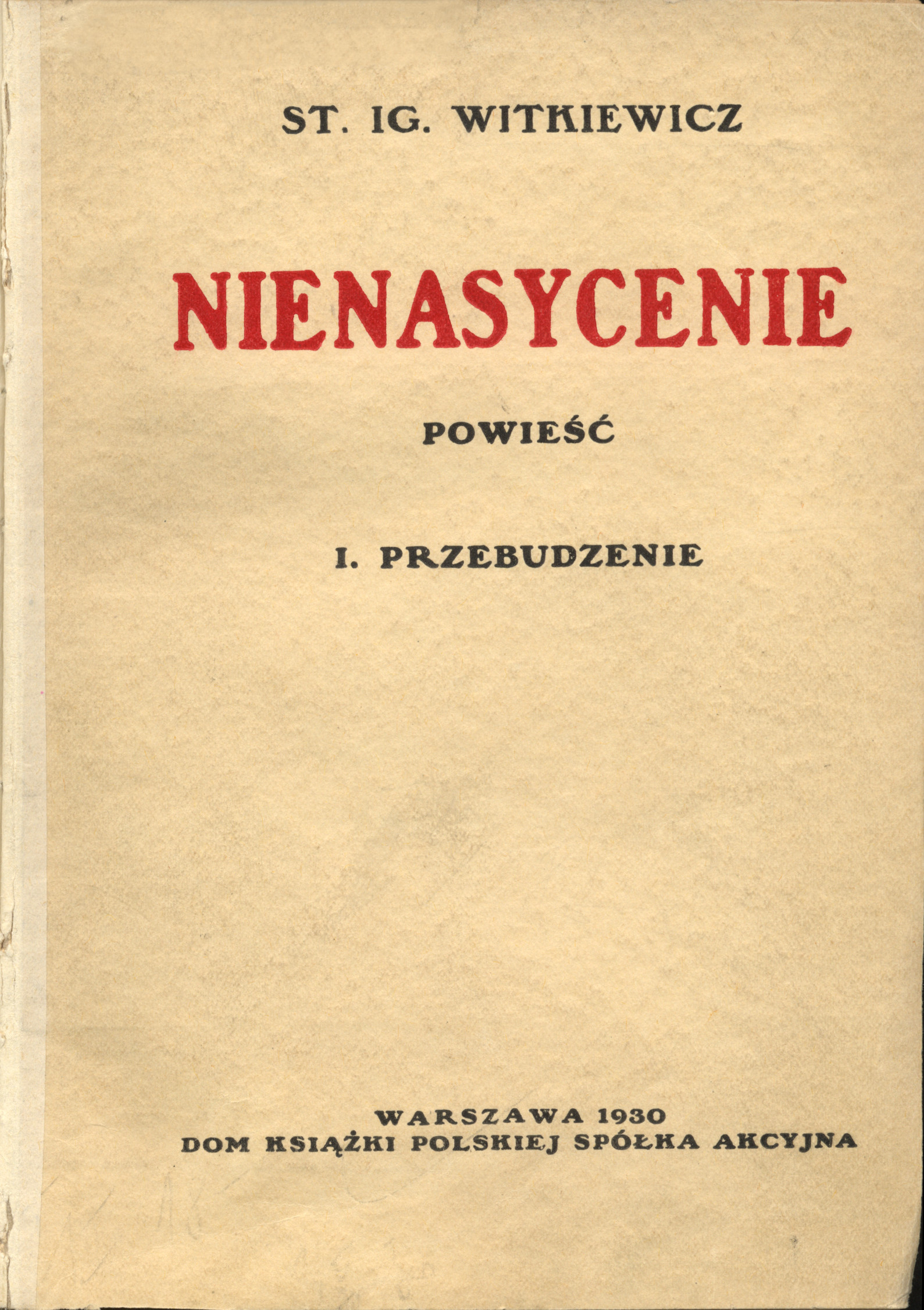 First edition cover of Nienasycenie volume 1: "Przebudzenie" (1930) by Stanisław Ignacy Witkiewicz.